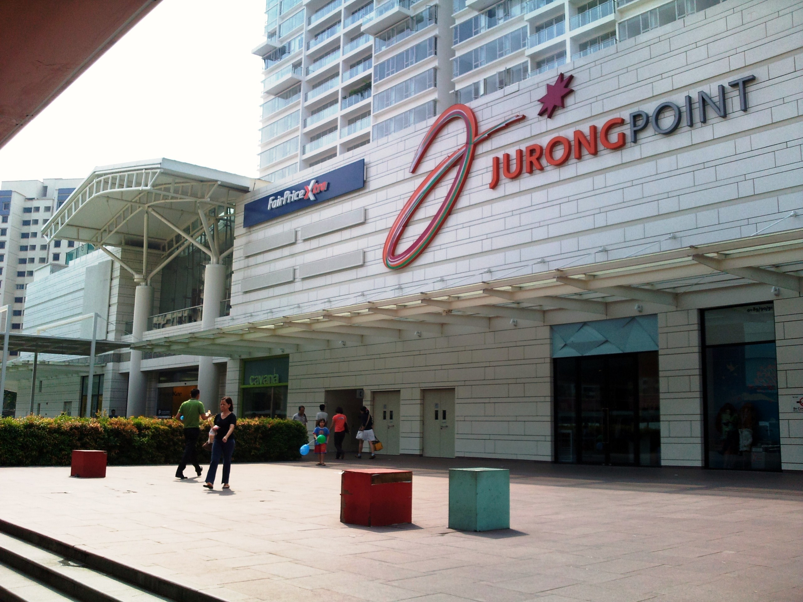 Entrance of Jurong Point,8 meagpixel, clearer